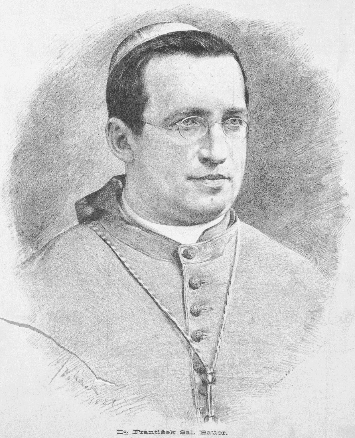 Portrait of František Saleský Bauer - bishop, archbishop and cardinal in Olomouc and Brno (present-day Czech Republic).